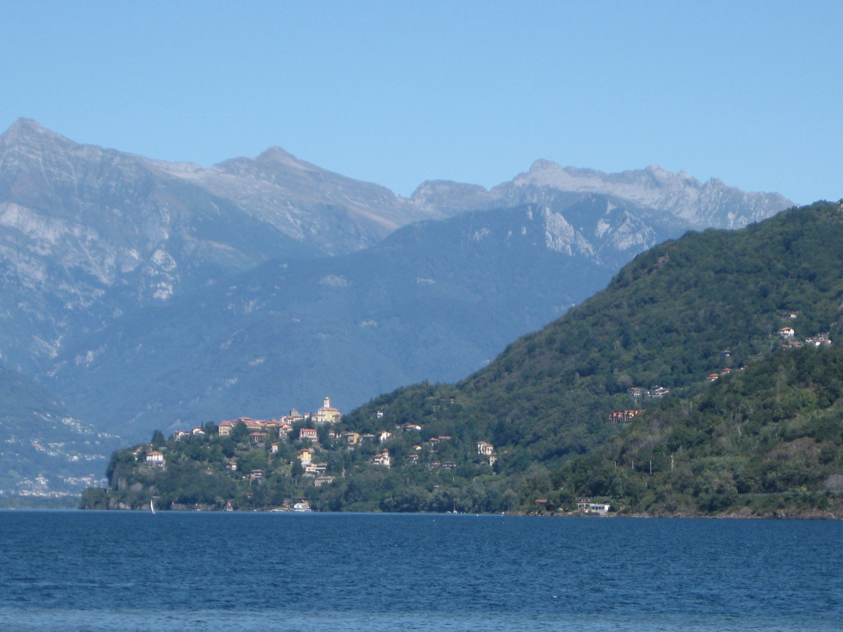 Pino sulla Sponda del Lago Maggiore as seen from the western side of the lake